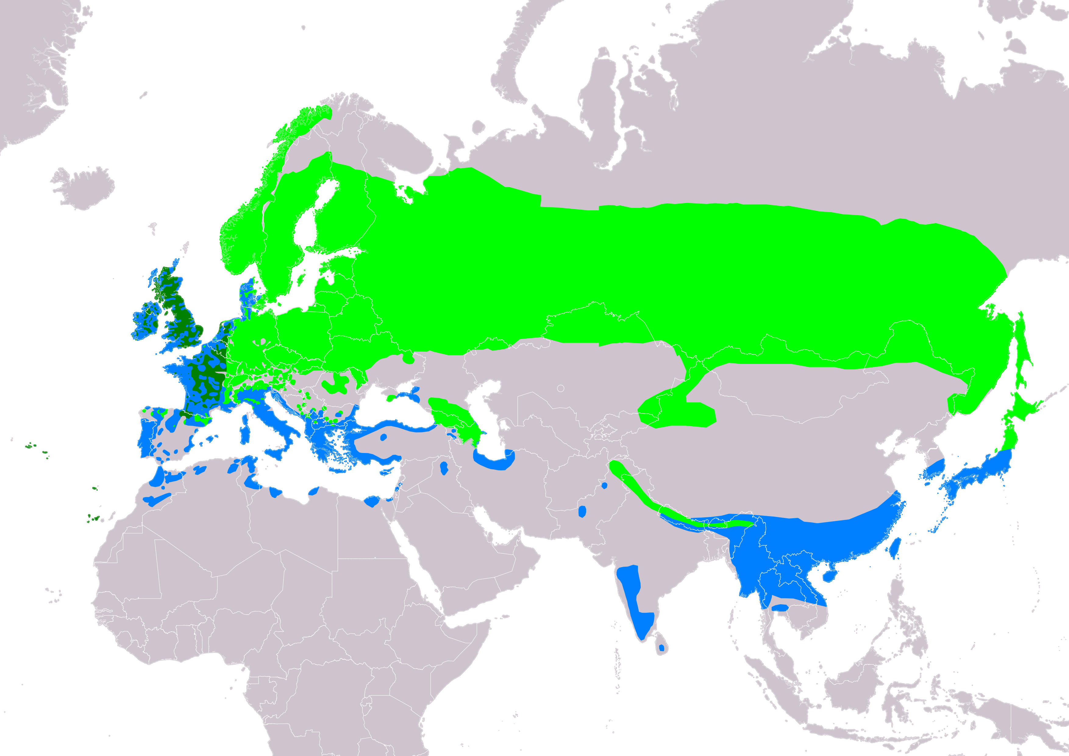 Distribution map of eurasian woodcock (Scolopax rusticola) according to IUCN version 2019.2 ; key: Legend: Extant, breeding (#00FF00), Extant, resident (#008000), Extant, non-breeding (#007FFF)